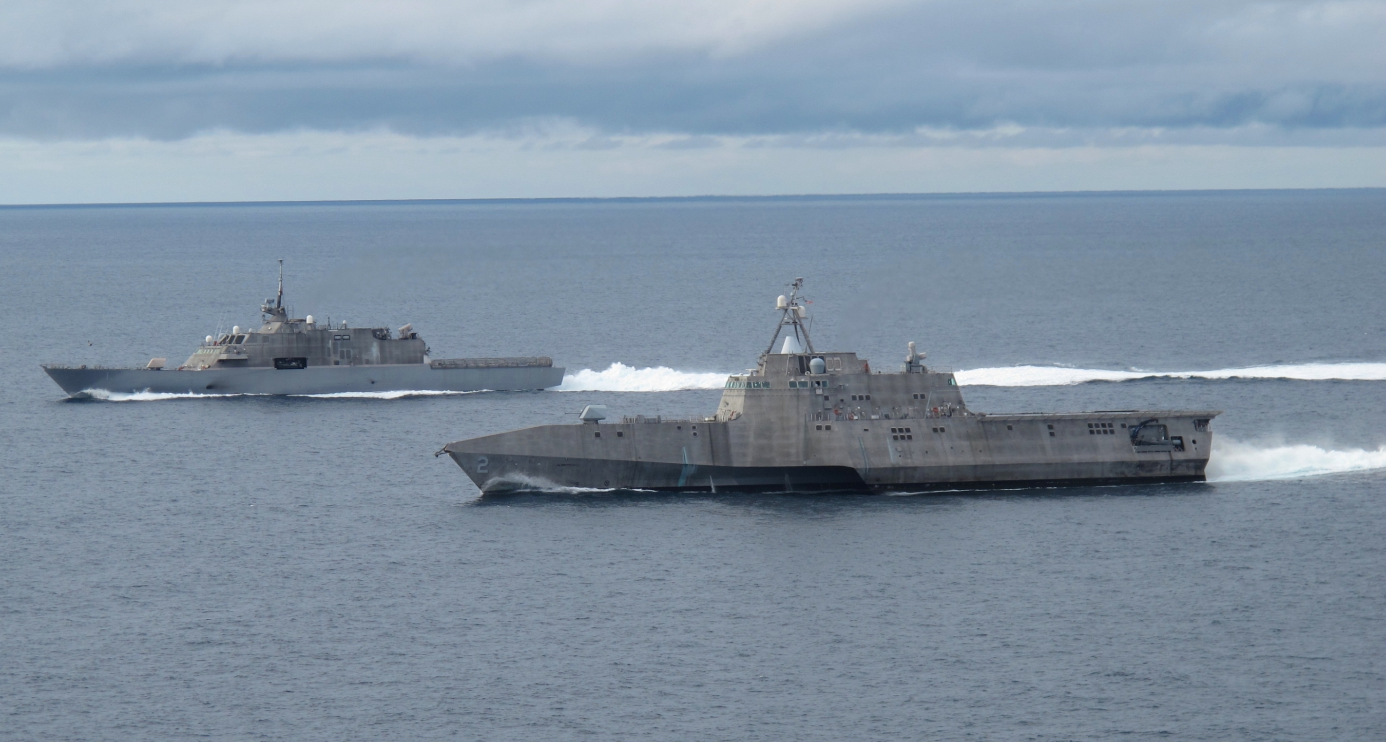 SAN DIEGO (May 2, 2012) The first of class littoral combat ships USS Freedom (LCS 1), left, and USS Independence (LCS 2), maneuver together during an exercise off the coast of Southern California. The littoral combat ship is a fast, agile, networked surface combatant designed to operate in the near-shore environment, while capable of open-ocean tasking, and win against 21st-century coastal threats such as submarines, mines, and swarming small craft. (U.S. Navy photo by Lt. Jan Shultis/Released) 120502-N-ZZ999-009 Join the conversation navylive.dodlive.mil